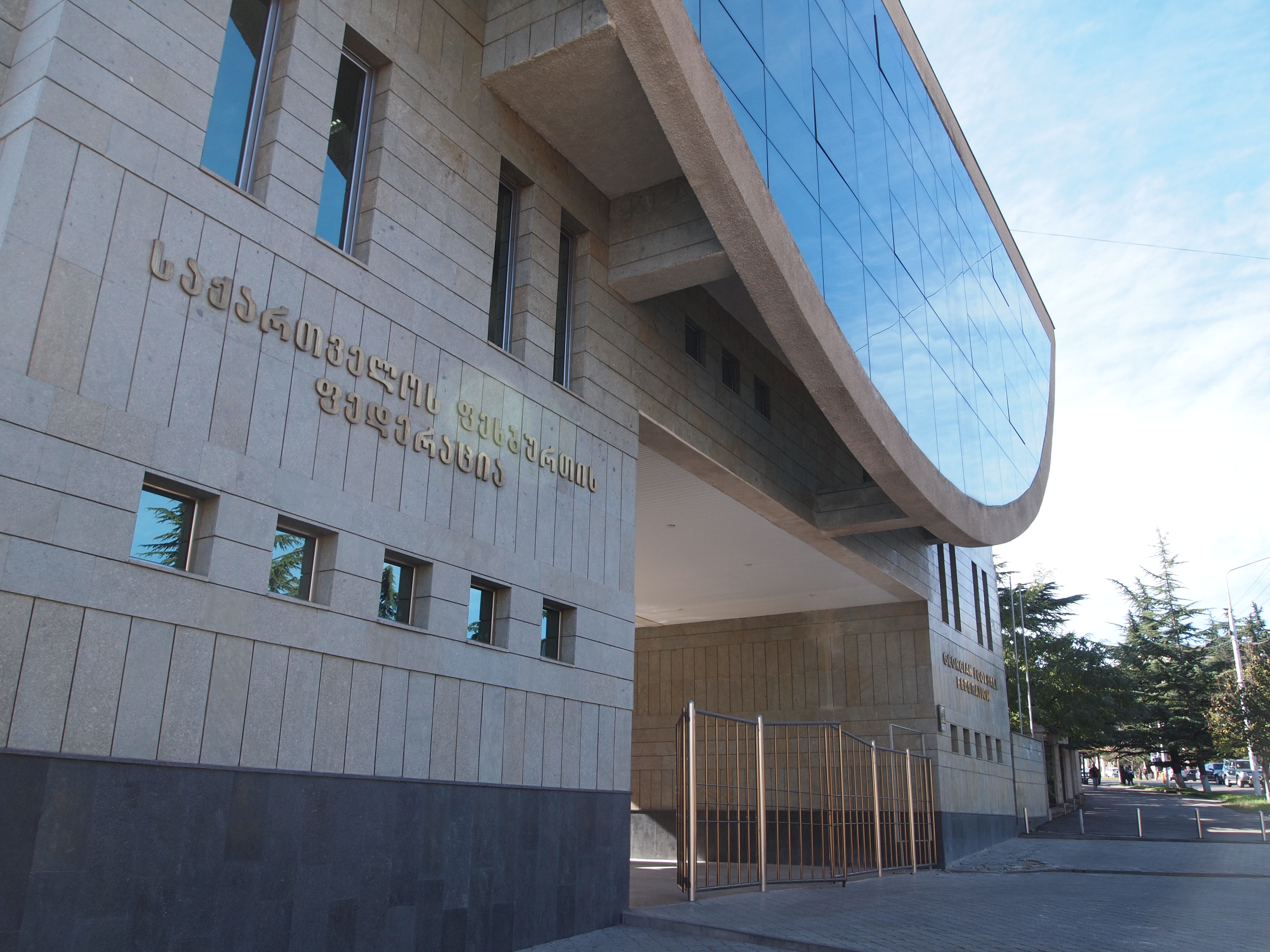 The Georgian Football Federation building